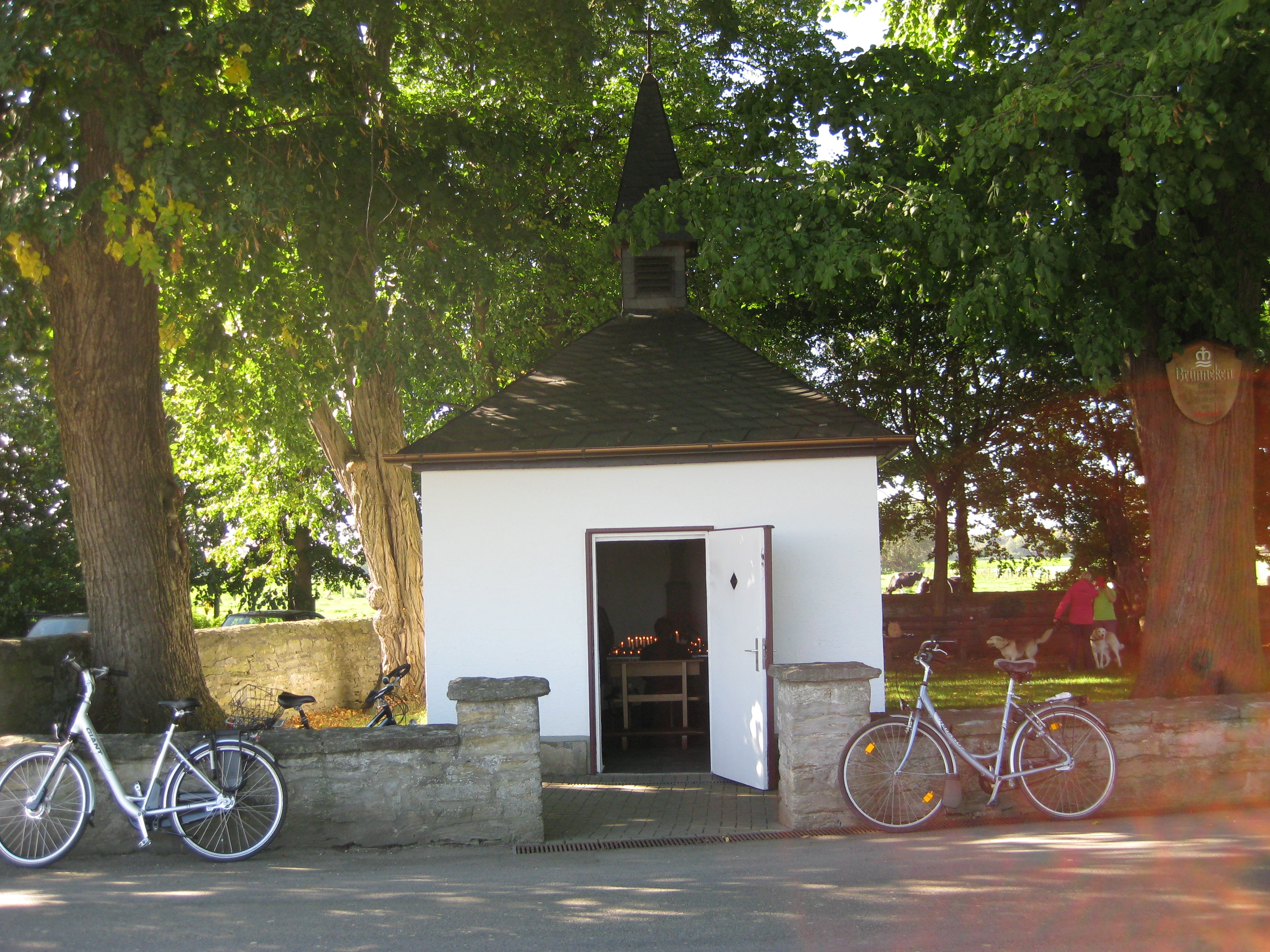 catholic chapel Brünneken in Lippstadt-Bökenförde